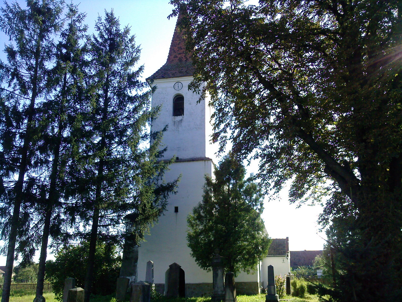 Reformed Church, Chichis, Covasna County, Romania